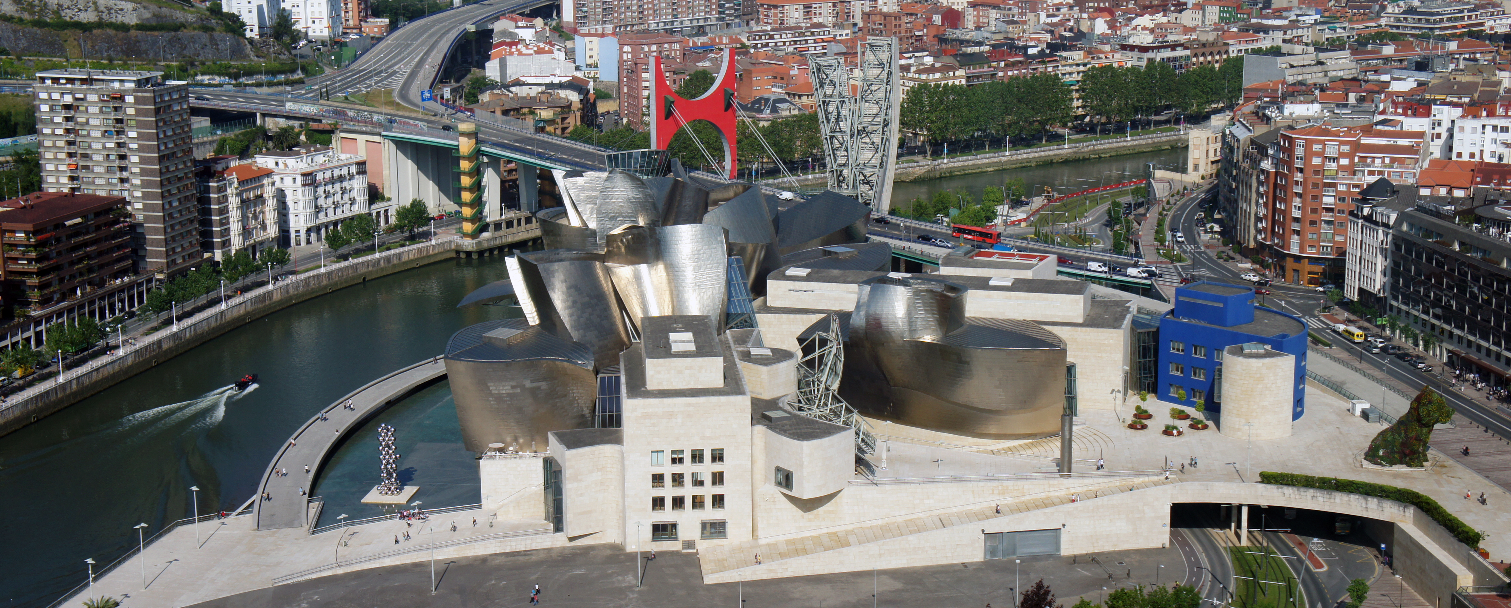 Panoramic view of the Guggenheim Museum Bilbao from the Iberdrola Tower. The La Salve bridge is in the background. The Museum is located on the left bank of the Nervion river. Bilbao, Basque Country, Spain.